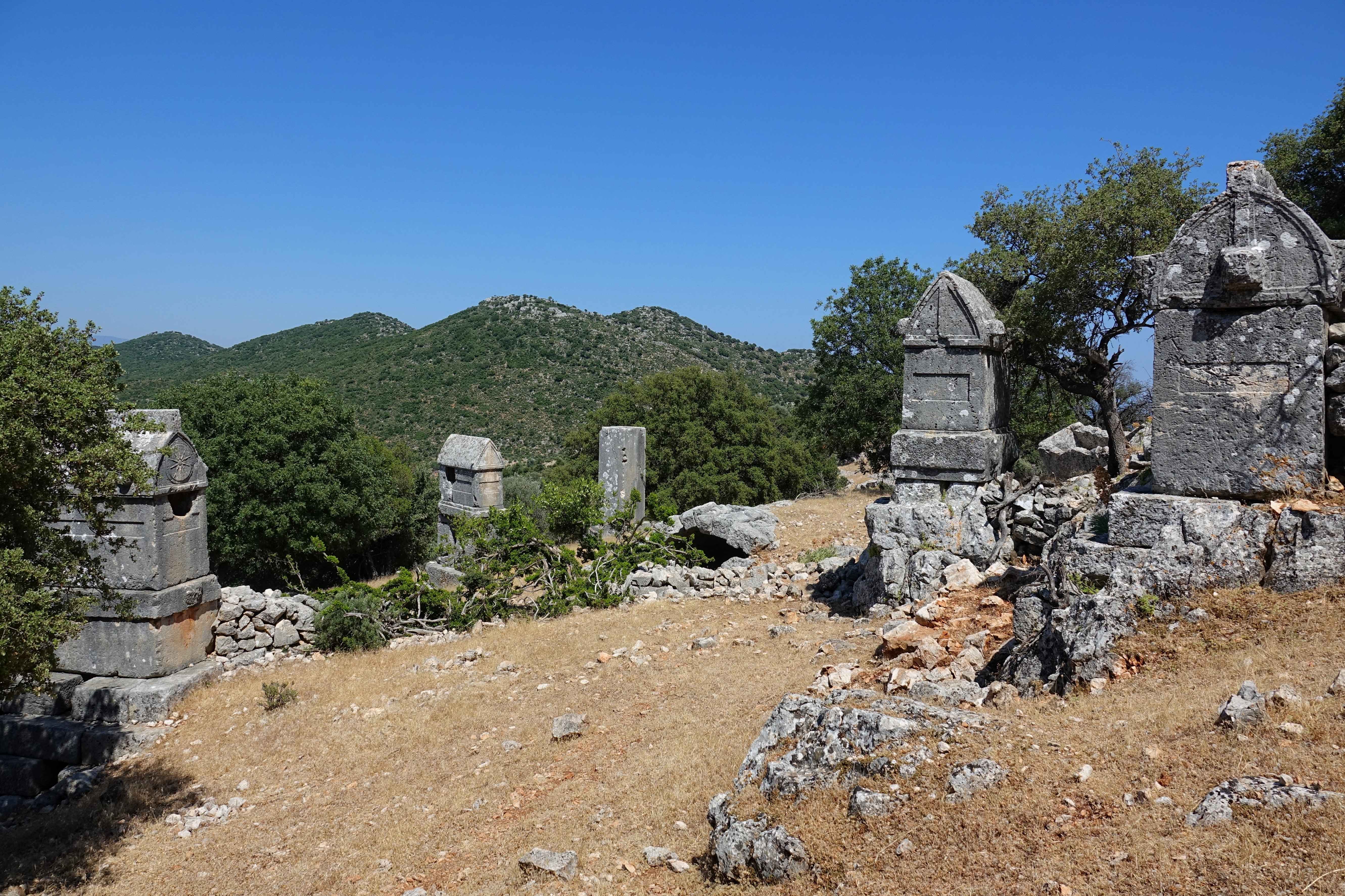 Typical Lycian pillar tombs at the archeological site of Apollonia in southern Turkey.